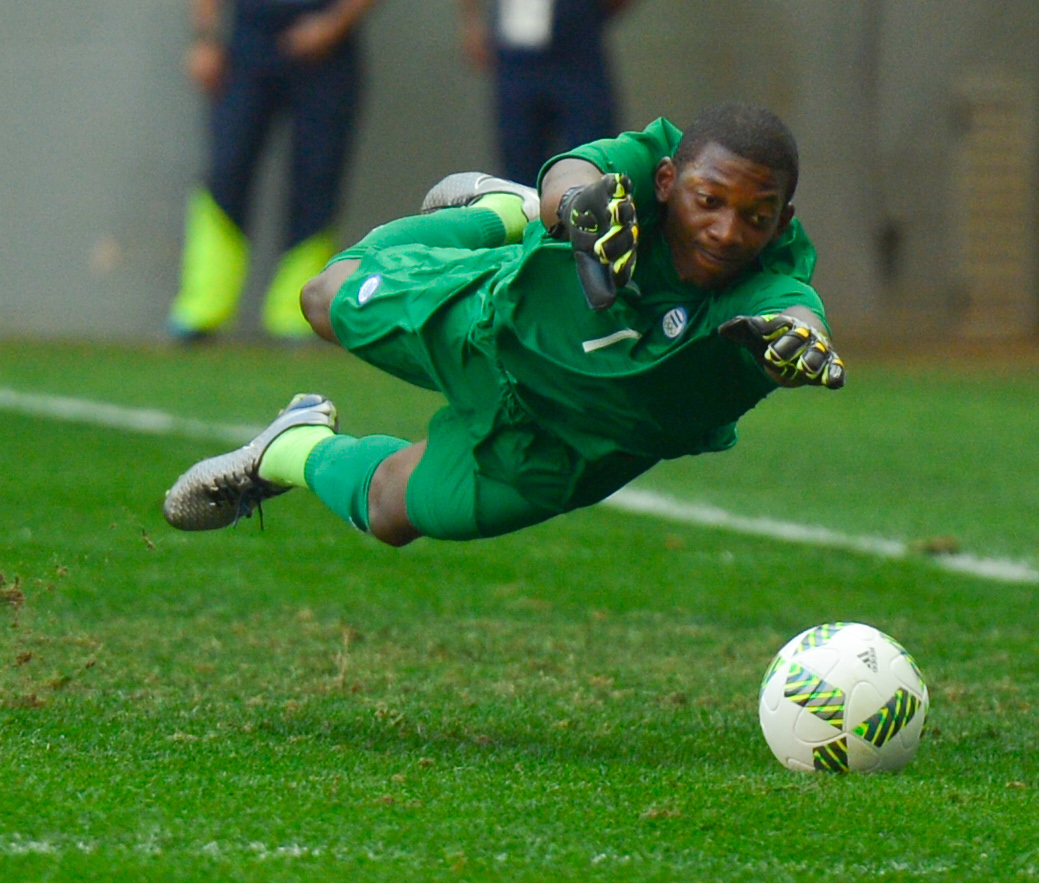 Brasília - Equipes masculinas do futebol olímpico da Argentina e Honduras jogam no Estádio Mané Garrincha (Gustavo Gomes/Agência Brasil)